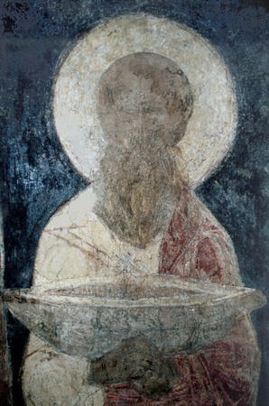 Noah